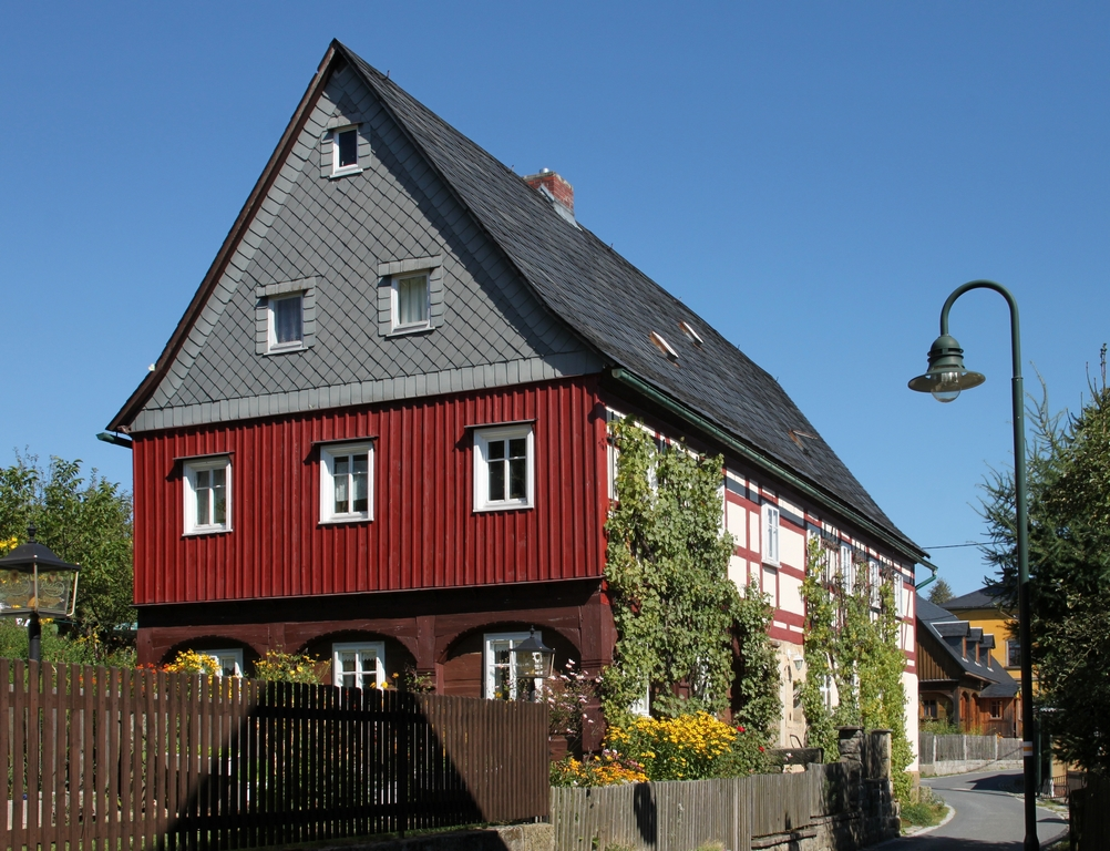 This photo shows a historical Umgebinde house (built 1804) in Hinterhermsdorf.